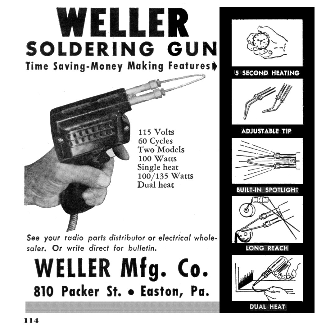 Advertisement for a Weller Soldering Gun in the April 1948 issue of Radio News. The Weller Soldering Gun was introduced in 1946.